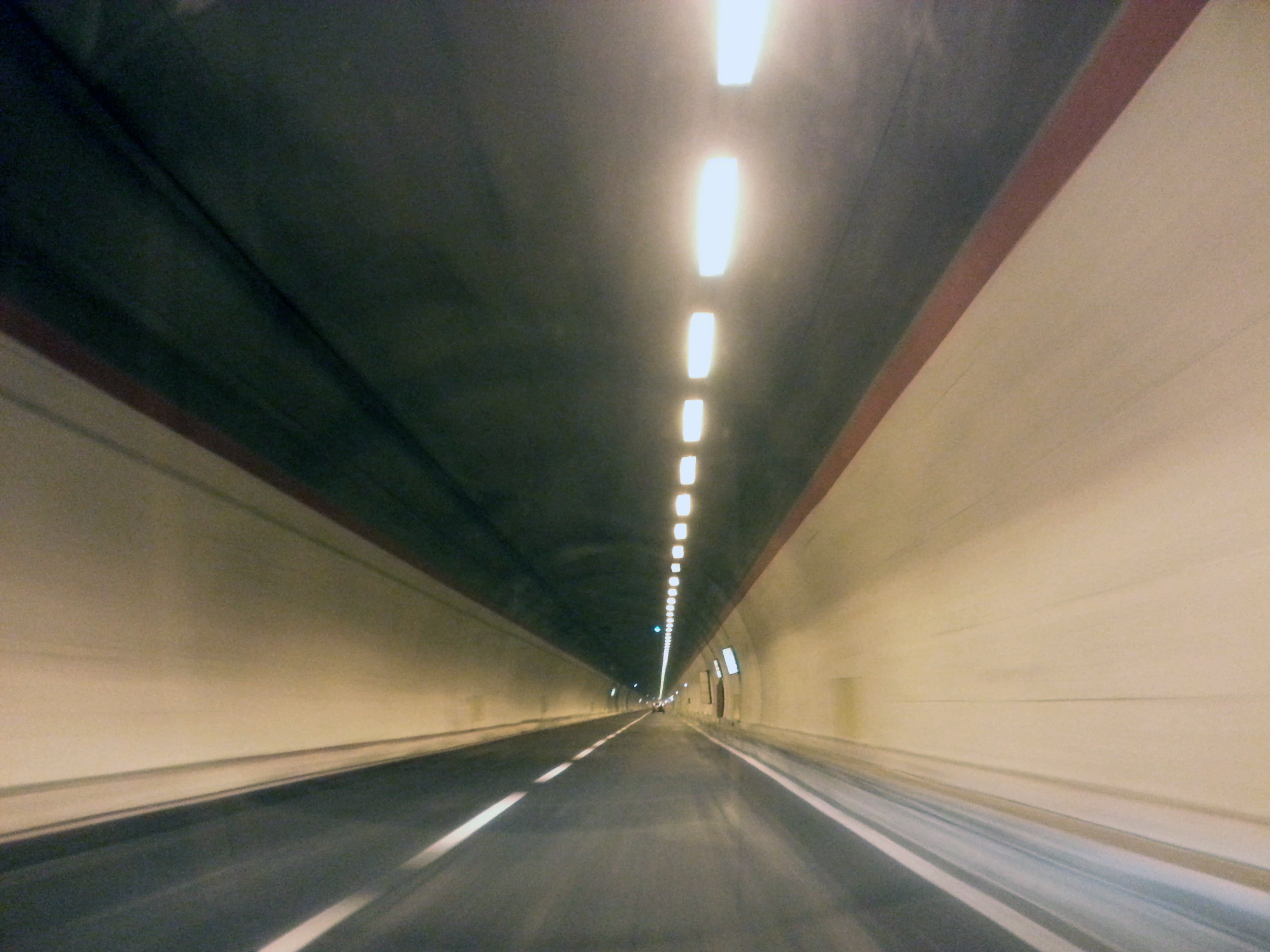 Italian State Road n. 4 Via Salaria - Colle Giardino tunnel, near Rieti, North-heading tunnel